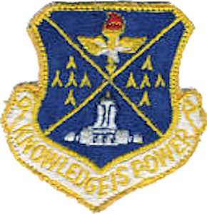 3510th Pilot Training Wing Emblem